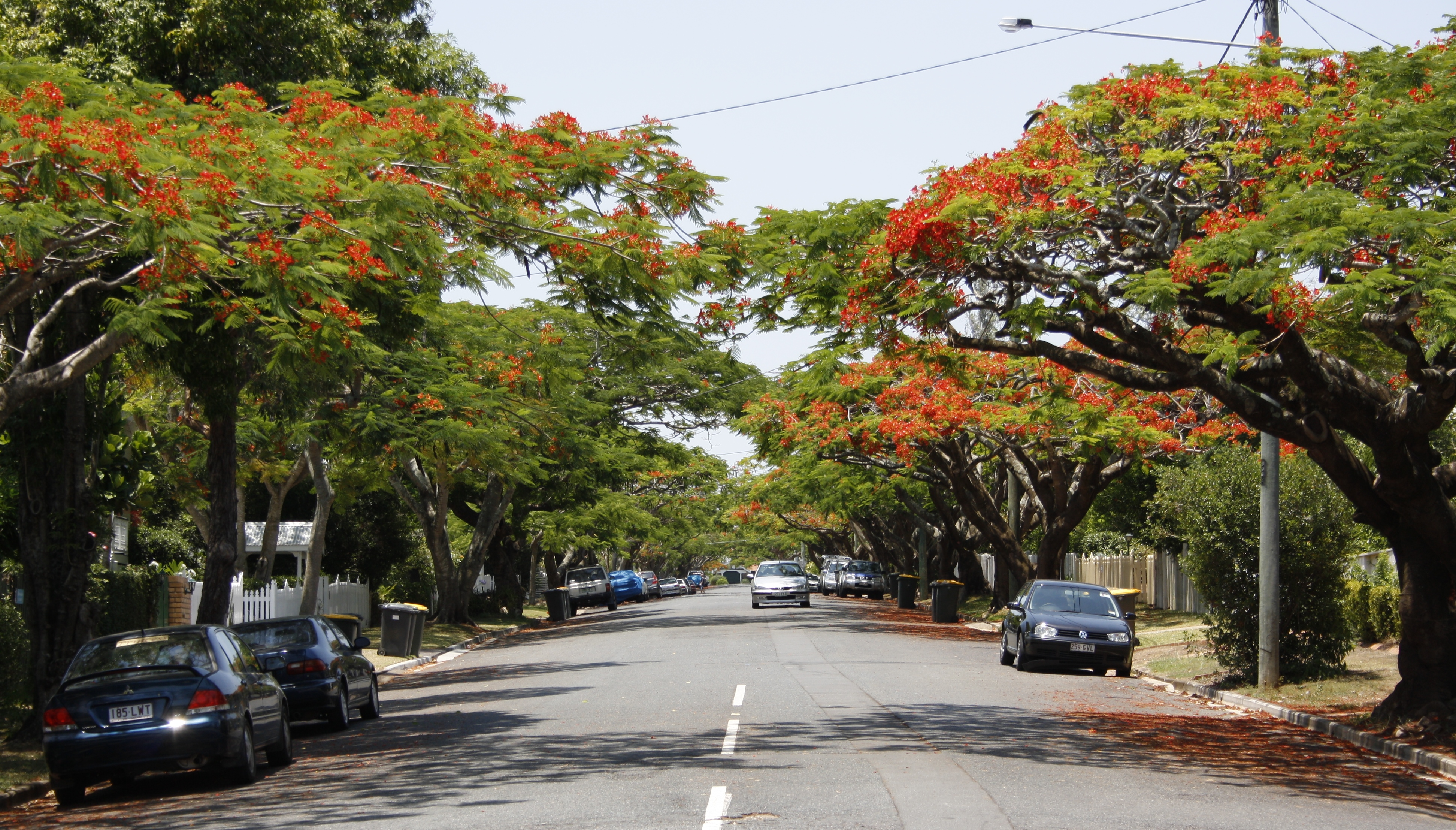 Yabba, a tree lined (maybe flame trees???) street in the suburb of Ascot in Brisbane, Australia.